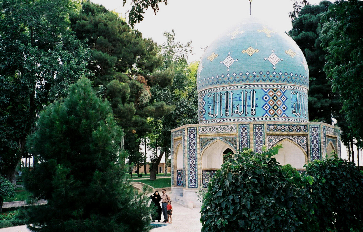 Attar Mausoleum, Neyshapur, Iran